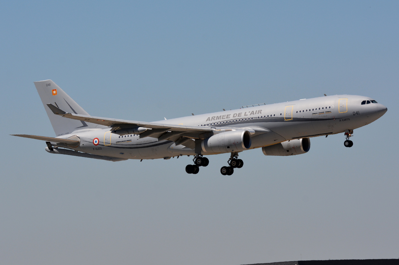 Paris-Orly Airport